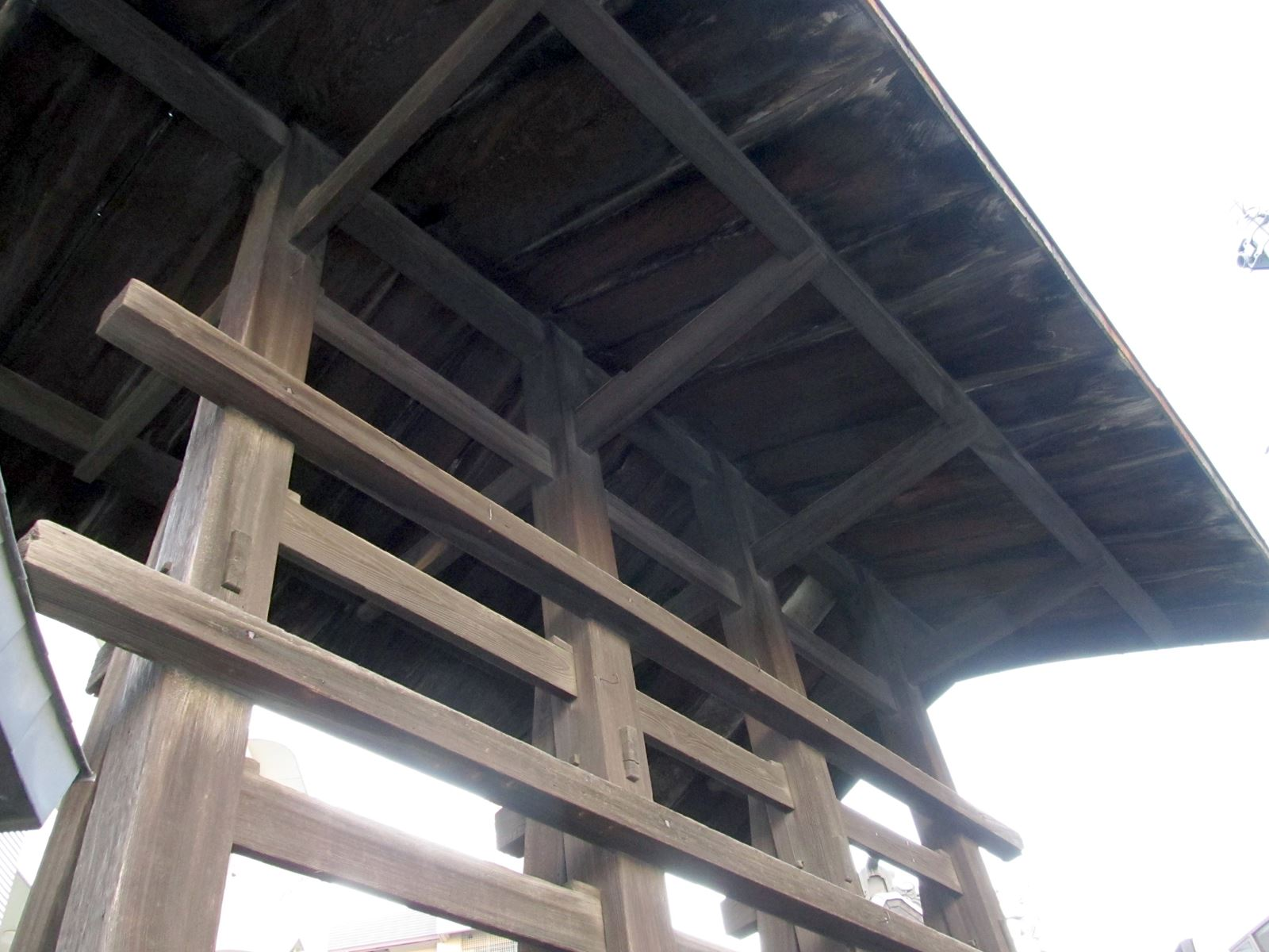 Kousatsu-ba Fuchu city, Tokyo, Tokyo, Japan